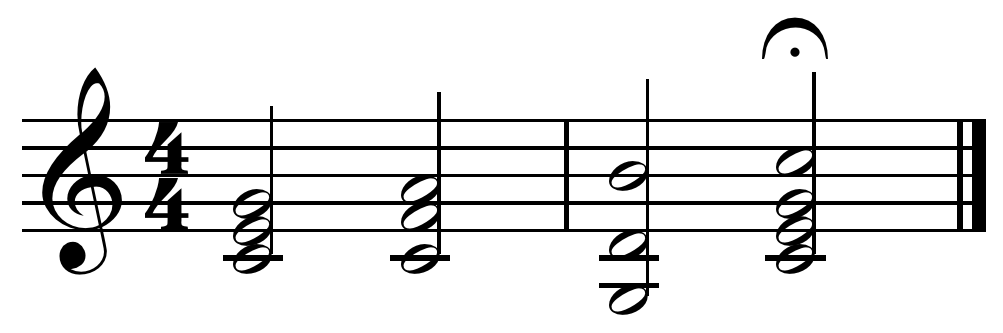 Circle progression I IV V I.